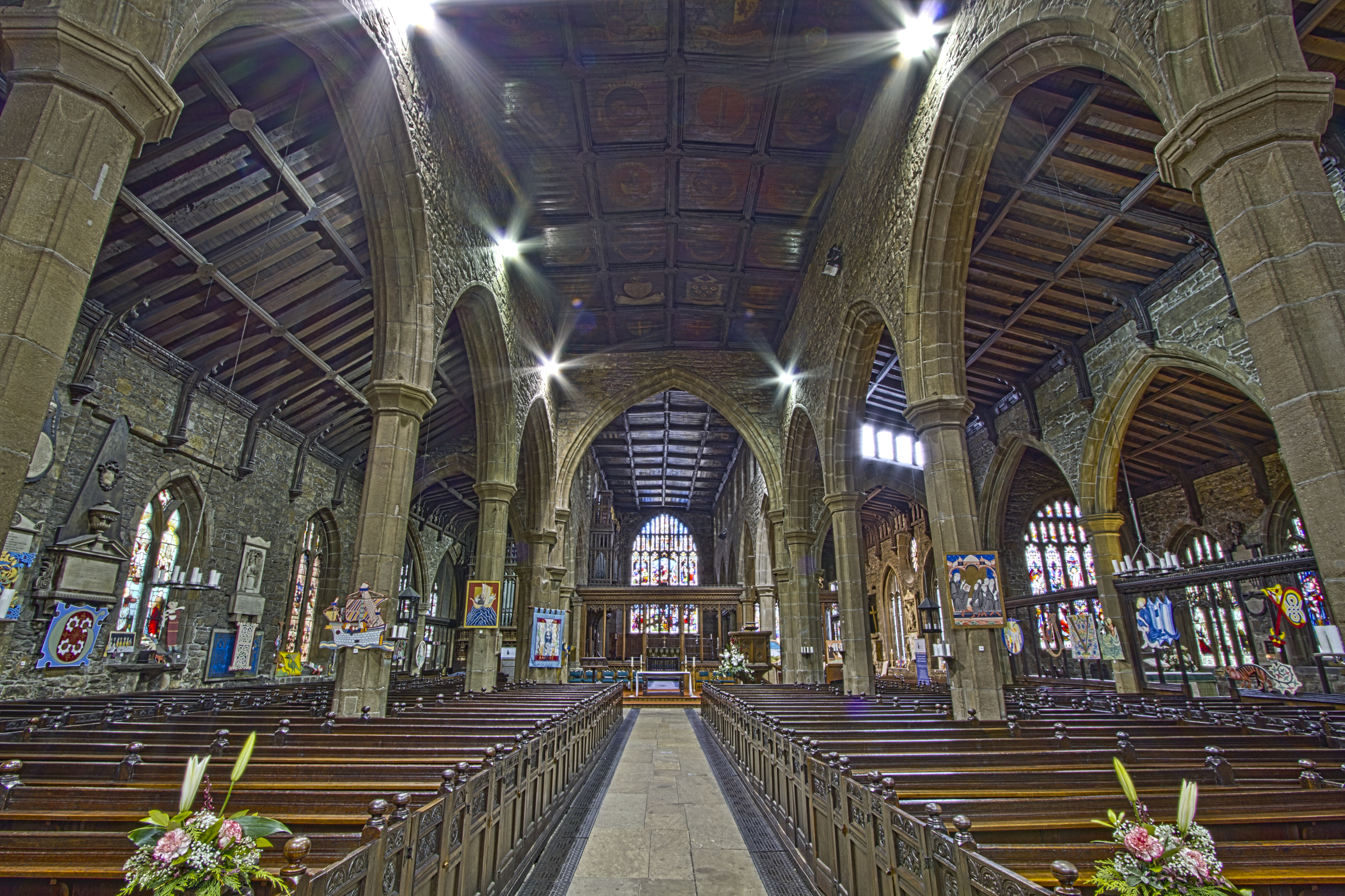 Here is a photograph taken from inside Halifax Minster. Located in Halifax, Yorkshire, England, UK. This is my first propper HDR image. I am not too keen on HDR not for what it is or does, but for the fact that in my opinion it is overused. There was a lot of detail in the dark areas and a lot of detail in the light areas which made this a perfect candidate for using HDR imaging, not just for the sake of it which is why I used it in this photograph. You CAN view and download the full 18megapixel image in Flickr, check out the other sizes when viewing *** I have made available the source photographs (48bit 18megapixel lossless TIFFS) if you want to make your own HDR photograph which you can get here: SOURCE FILES : ****** (717 mb rar file)